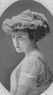 A young white woman with voluminous wavy hair in an updo, wearing a white dress with short fringed sleeves.